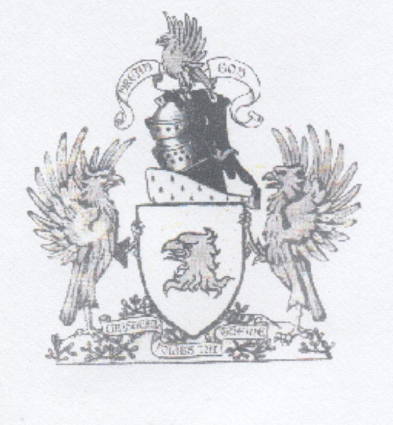 Registered coat of arms of the Munro of Foulis family